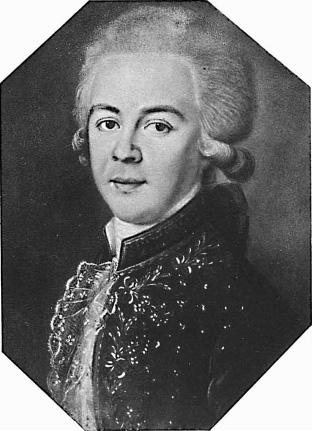 Graf Apollos Apollosovich Musin-Pushkin, 1761-1805